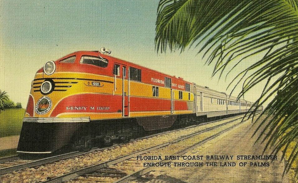 Postcard depiction of the Florida East Coast Railway's "Henry M. Flagler", which traveled between Jacksonville and Miami.